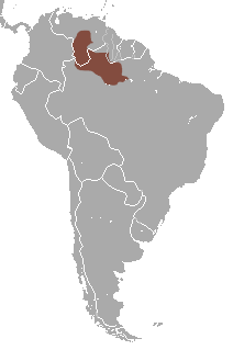 Three-striped Night Monkey (Aotus trivirgatus) range